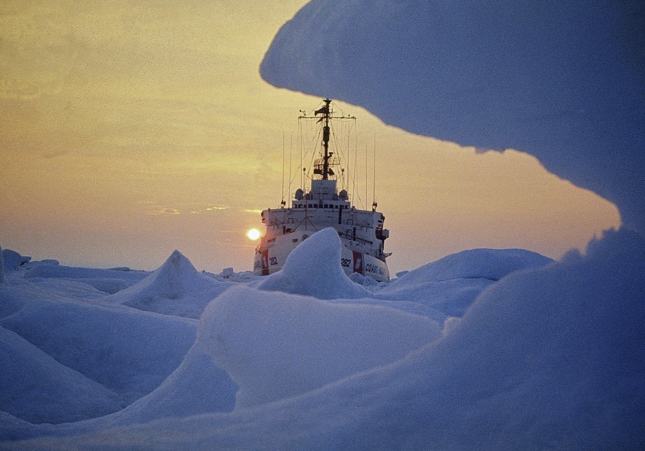 USCGC NORTHWIND (WAGB-282) beset in the Beaufort Sea on her eastward route to Thule, Greenland to rejoin the SS MANHATTEN expedition.